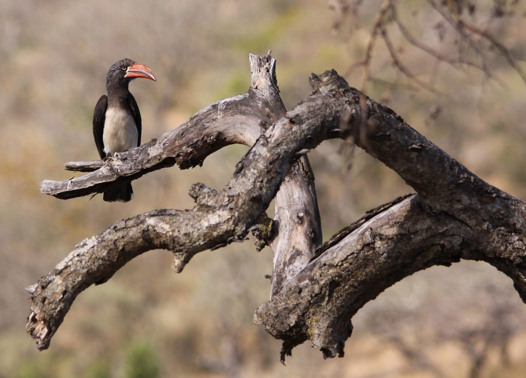 Crowned Hornbill, Tockus alboterminatus, Hluhluwe-Umfolozi Game Reserve